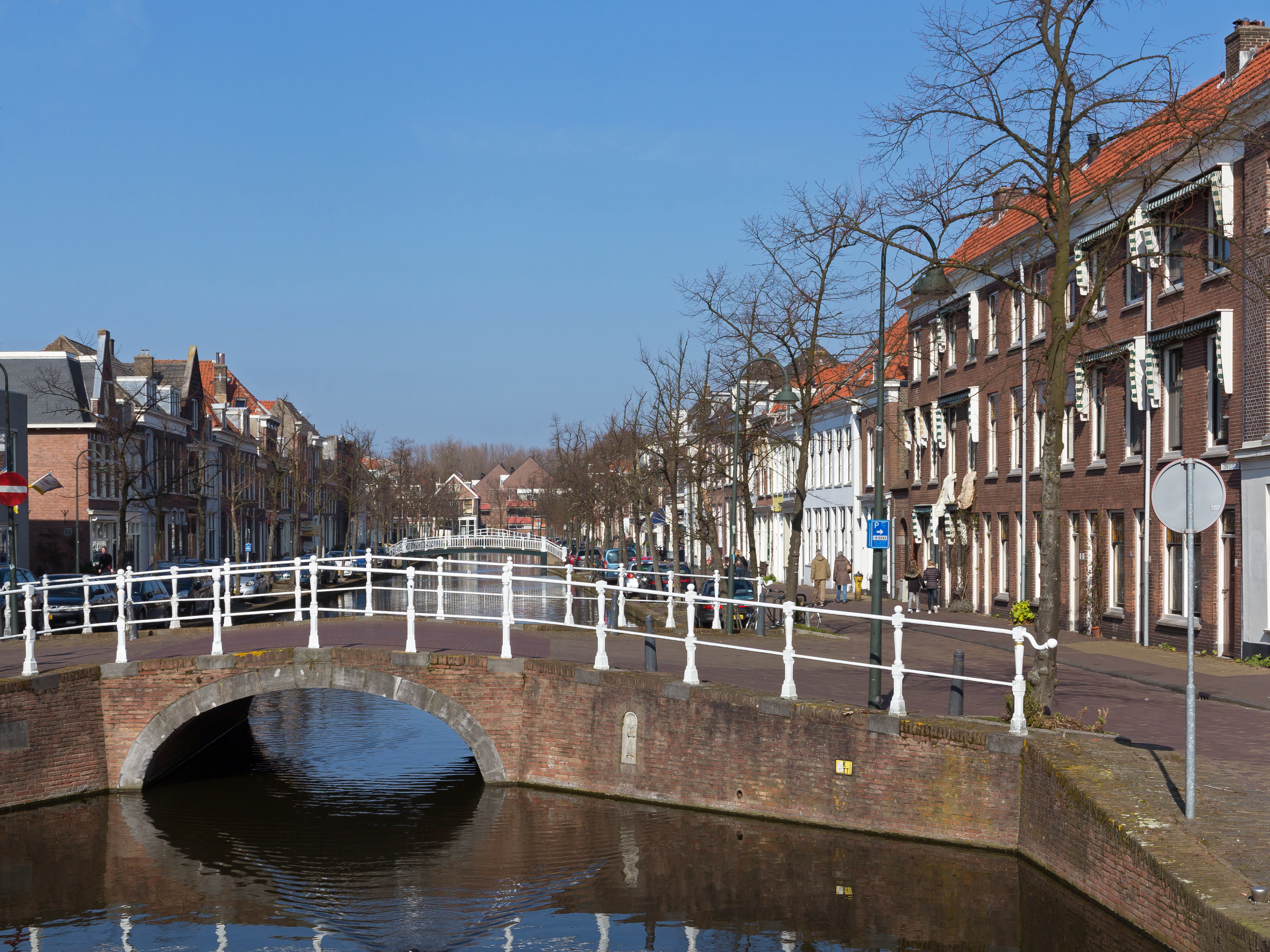 Delft, street view: Dertienhuizen-Verwersdijk